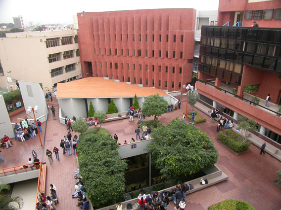 Plaza principal de la Universidad del Pacífico in Lima, Perú. M. Lamberts, 2004.